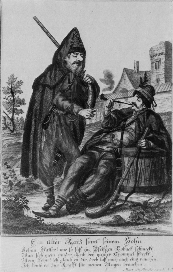 Old Rascian (Serb) with son. Copperplate by Martin Engelbrecht.